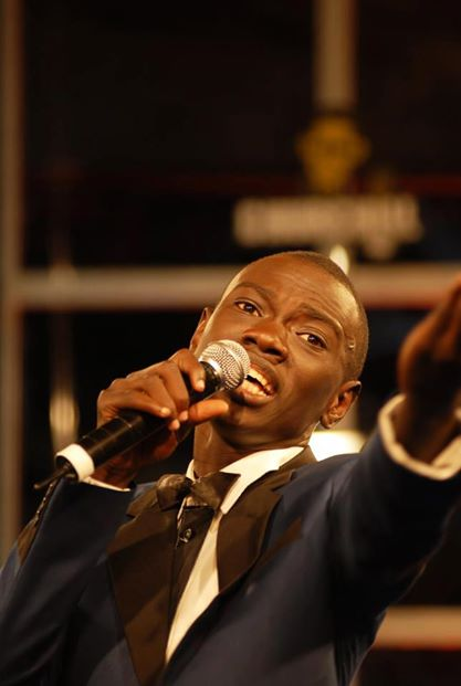 Butita performing on churchill show kenya 2013 April